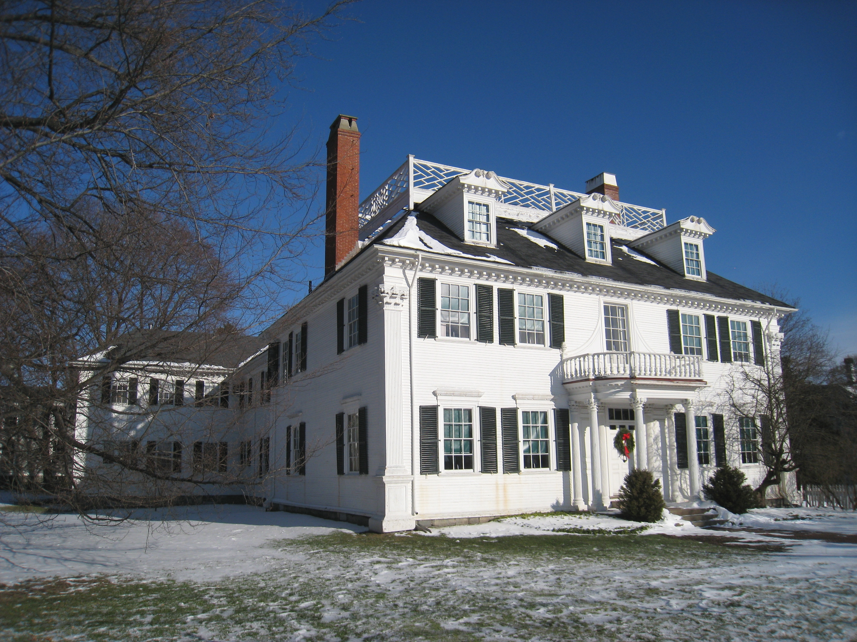 Governor John Langdon House, Portsmouth, New Hampshire, USA. I took this photograph.